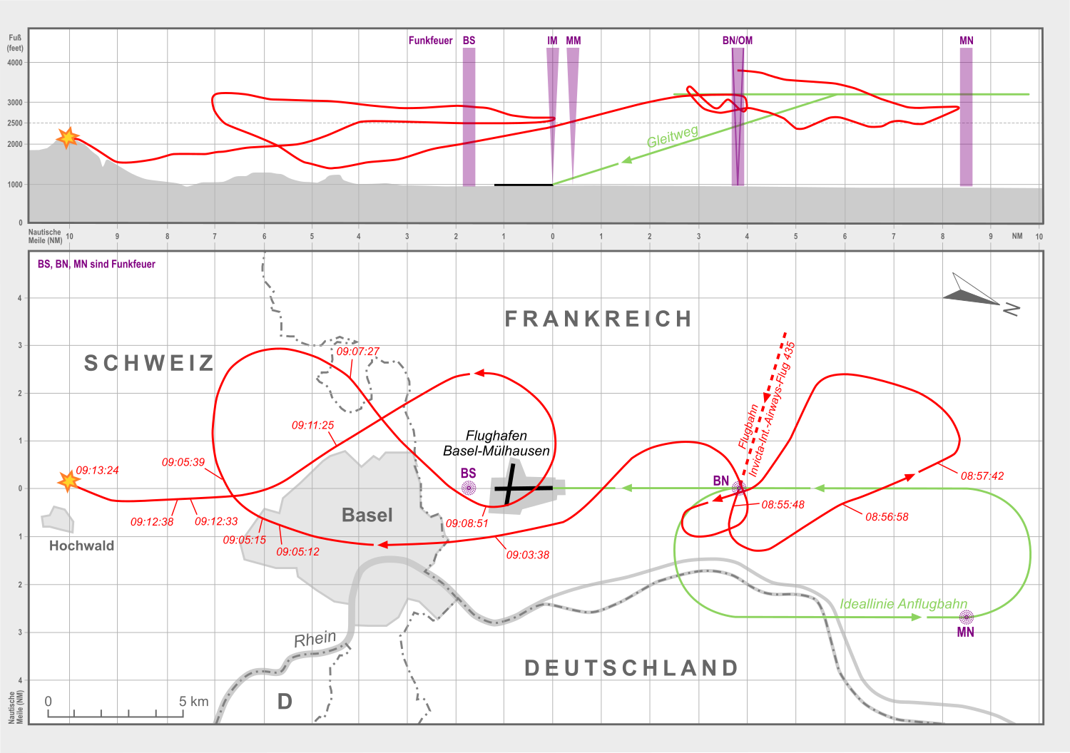 The graphics show the vertical (above) and horizontal (bottom) flight path of Invicta Airlines Flight 435 according to the flight data recorder recording. Excerpt from radio contact transcriptionTimeIM 435Tower08:55:48BN out boundCleared down 2500 feet QNH 998,5 check MN08:56:58435 appraoching 2500Roger check MN08:57:42435 MNCleared for approch check BN on final09:00:13435 in BNB turning out bound again will call MN09:03:38BN in bound435 you are cleared to land on runway 16 the wind 320 degrees 8 knots09:05:12435 is overshooting09:05:15 We'll try another approachOK what do you intend to do? OK you report BN out bound 2500 feet09:05:39Roger BN out bound 2500 feet09:07:27BN out boundRoger 435 report turning final09:08:51435 MN435 report BN on final09:11:25BN435 you are cleared to land you report light in sight the wind now 320 8 knots09:12:10 I think've got a spurious indication We are on the lo… on the ILS now, SirAre you sure you are over BN? Ah!09:12:33BN is established on localizer and glide path the ADF,S all over the place in this weather09:12:38For information I don't see you on my scope radar I don't see you on my scope radar.09:13:03 One thousand four hundred on the QNH435 what is your altitude now? HO I think you are south of the field, you are not on the, you are on the south of the field09:13:26IM 435 crashes near Hochwald